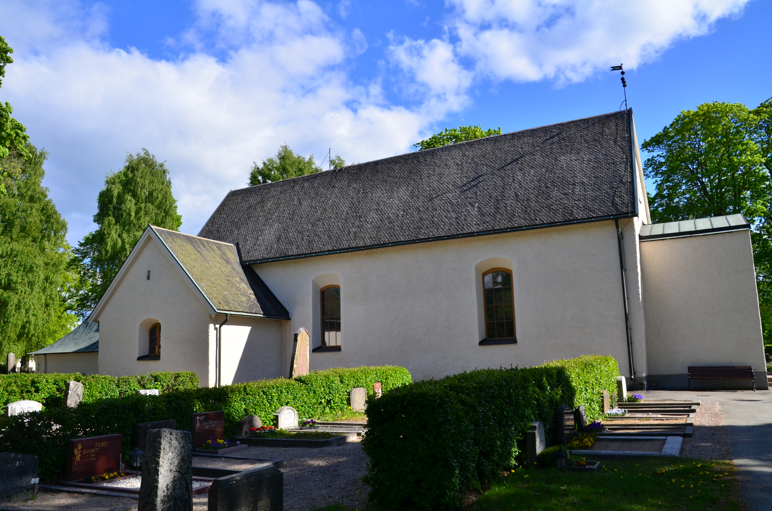 Almby church from north